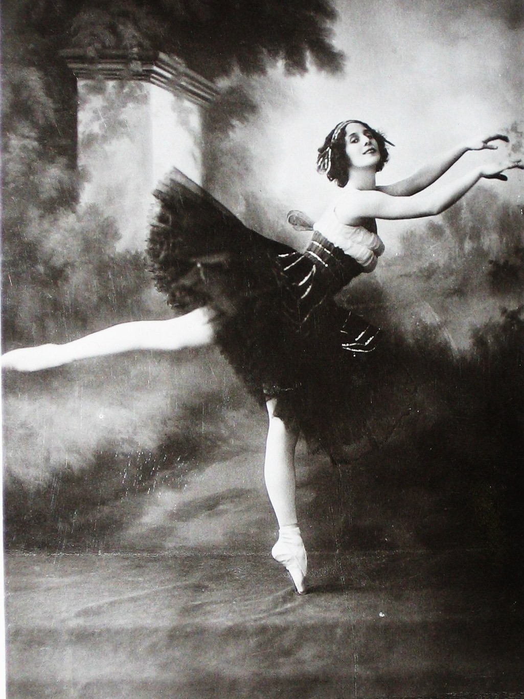 Anna Pavlova in the Butterfly solo (1911, London).